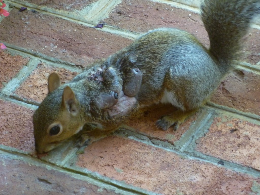 This squirrel is infested with fly larvae of the genus Cuterebrinae, family Oestridae, a condition also known as "warbles". The infection is localized, and not (usually) permanently harmful to the squirrel. Once the larvae hatch, the wounds will usually heal, although they can become infected with bacteria and form abscesses. The condition is relatively common, and cannot spread to other animals. Other animals can also become infected with warbles, and it is possible to see cases in domestic animals such as cattle, although nowadays (with more fly and parasite control methods) it doesn't happen very often. Photographed in Midlothian, VA.